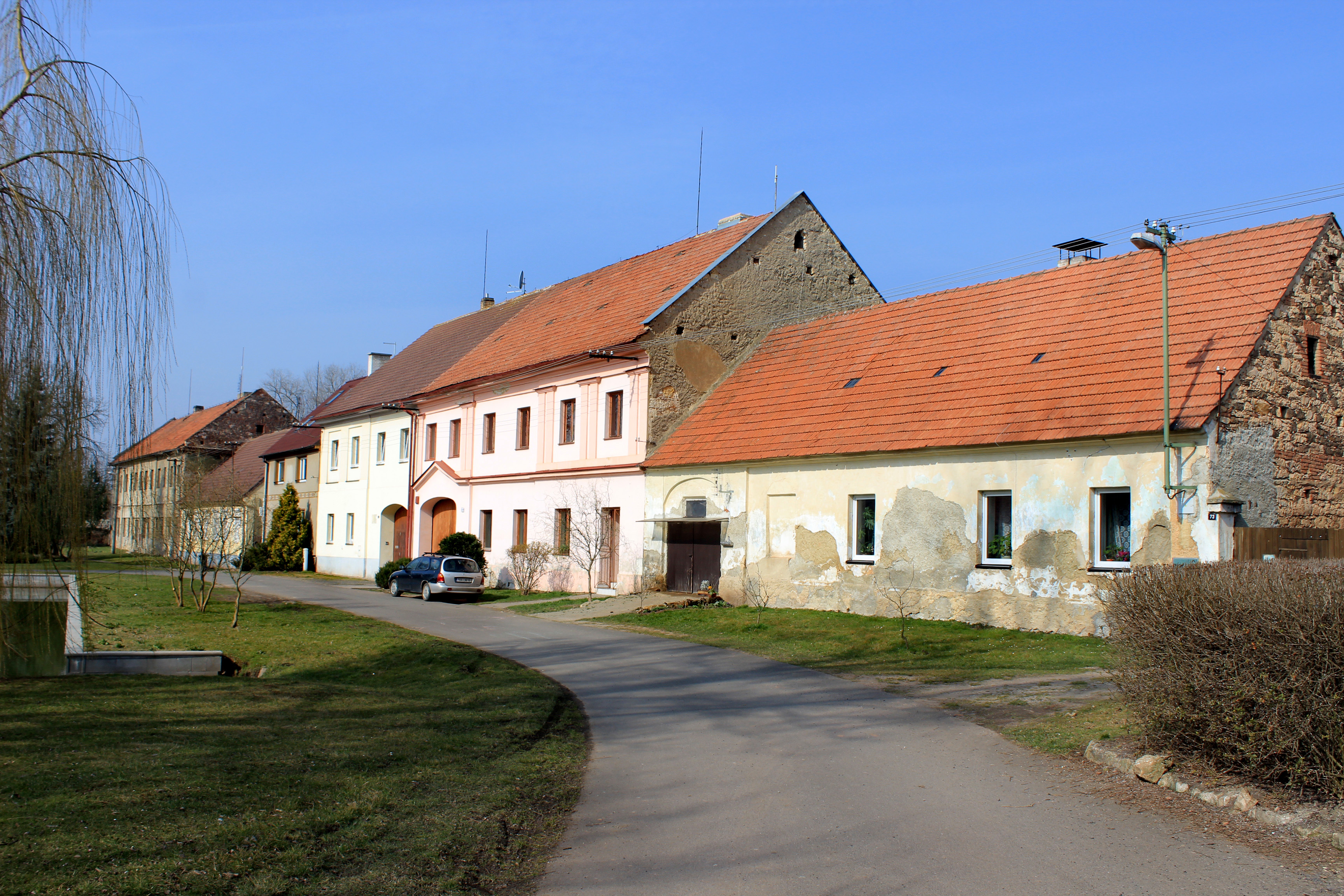 Common in Chrášťany, Czech Republic.